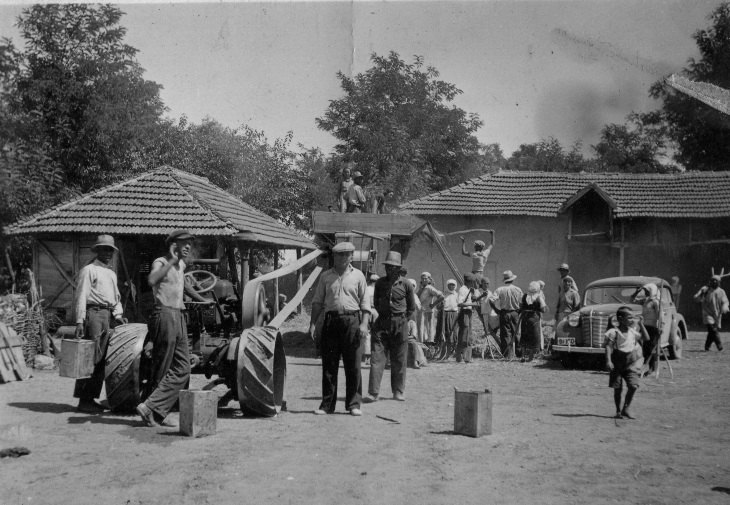 Threshing in Bulgaria – v. Mihajlovo, 1938